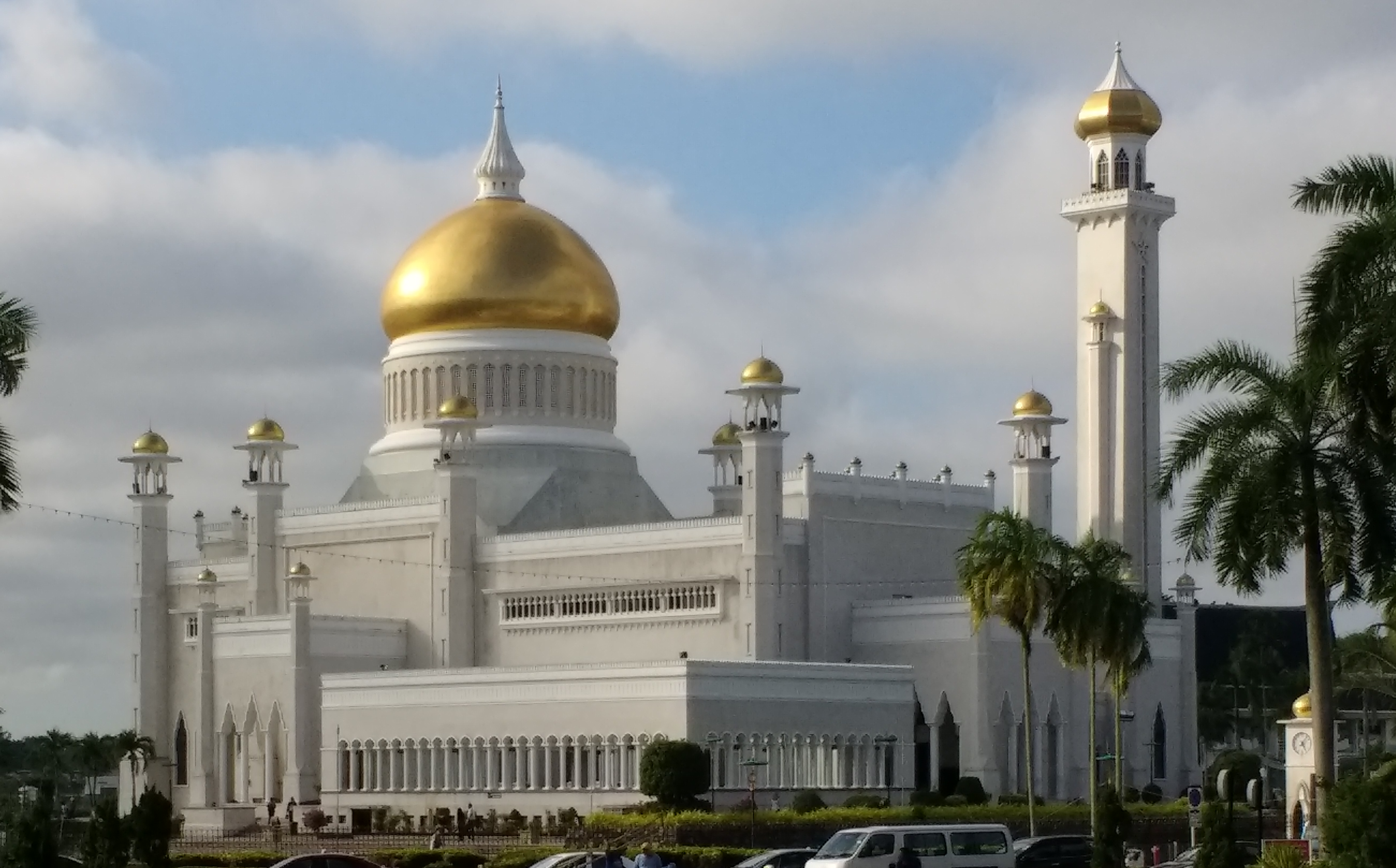 Omar Ali Saifuddien Mosque in Bandar Seri Begawan.